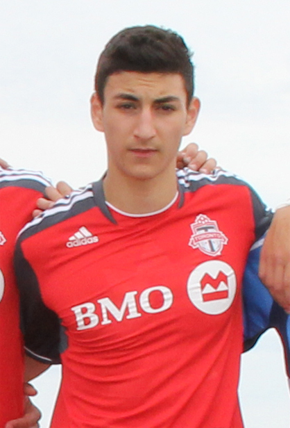 Chris Mannella in the TFC Academy starting lineup in 2012.